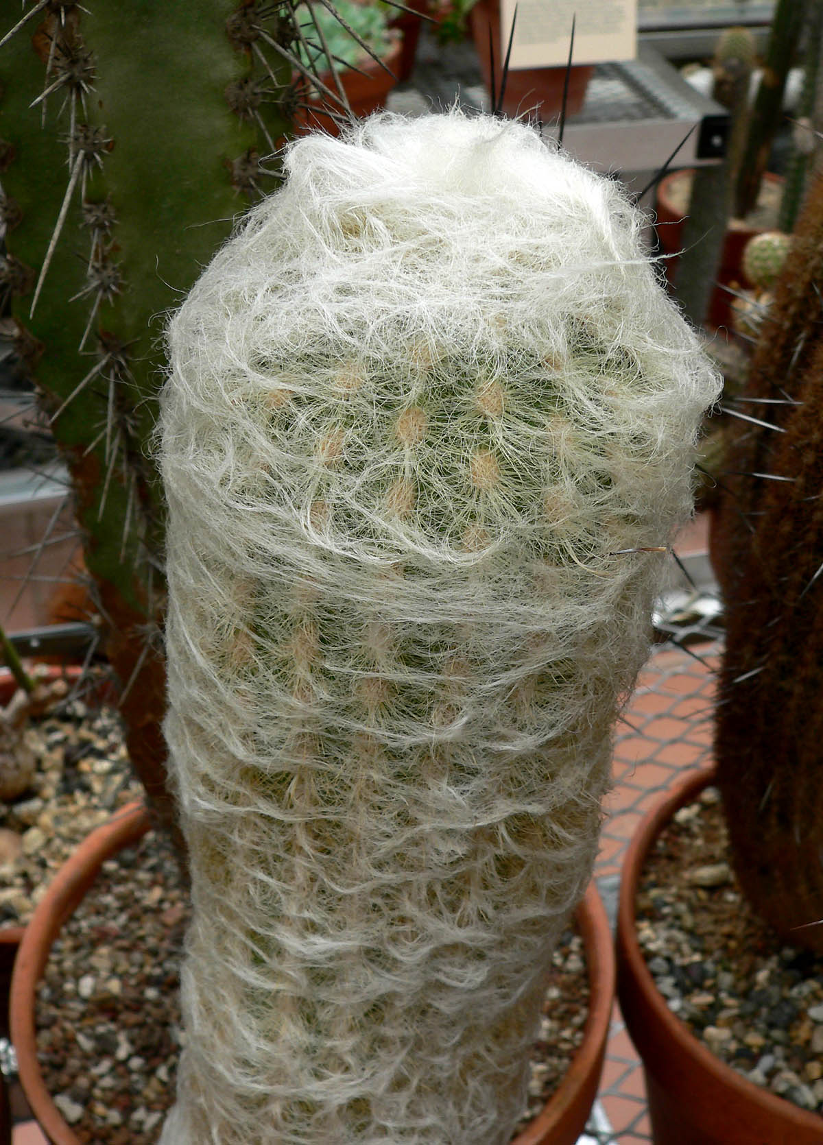 Photo of Espostoa lanata var. gracilis at the University of California Botanical Garden